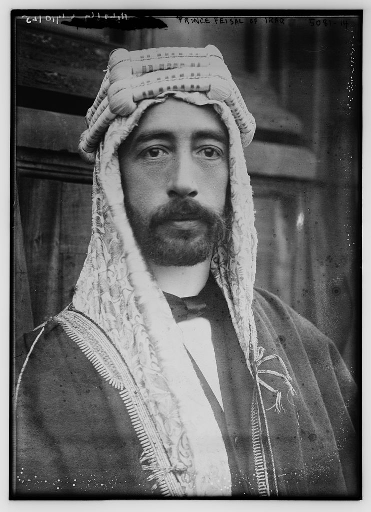 Faisal I of Iraq circa 1920